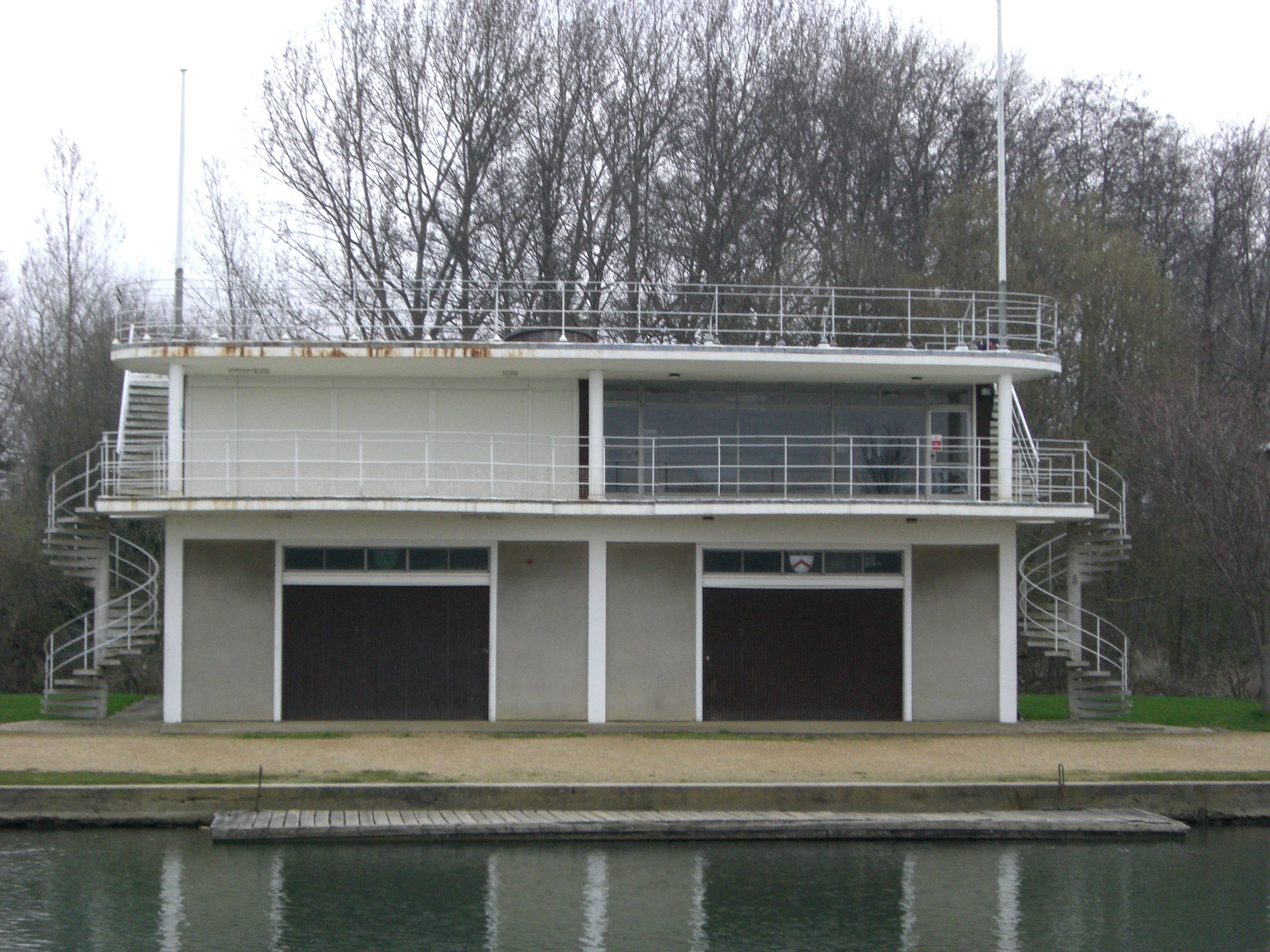 Boathouse on the River Thames, just south of Folly Bridge in Oxford. Used by (from left to right) Jesus College and Keble College.